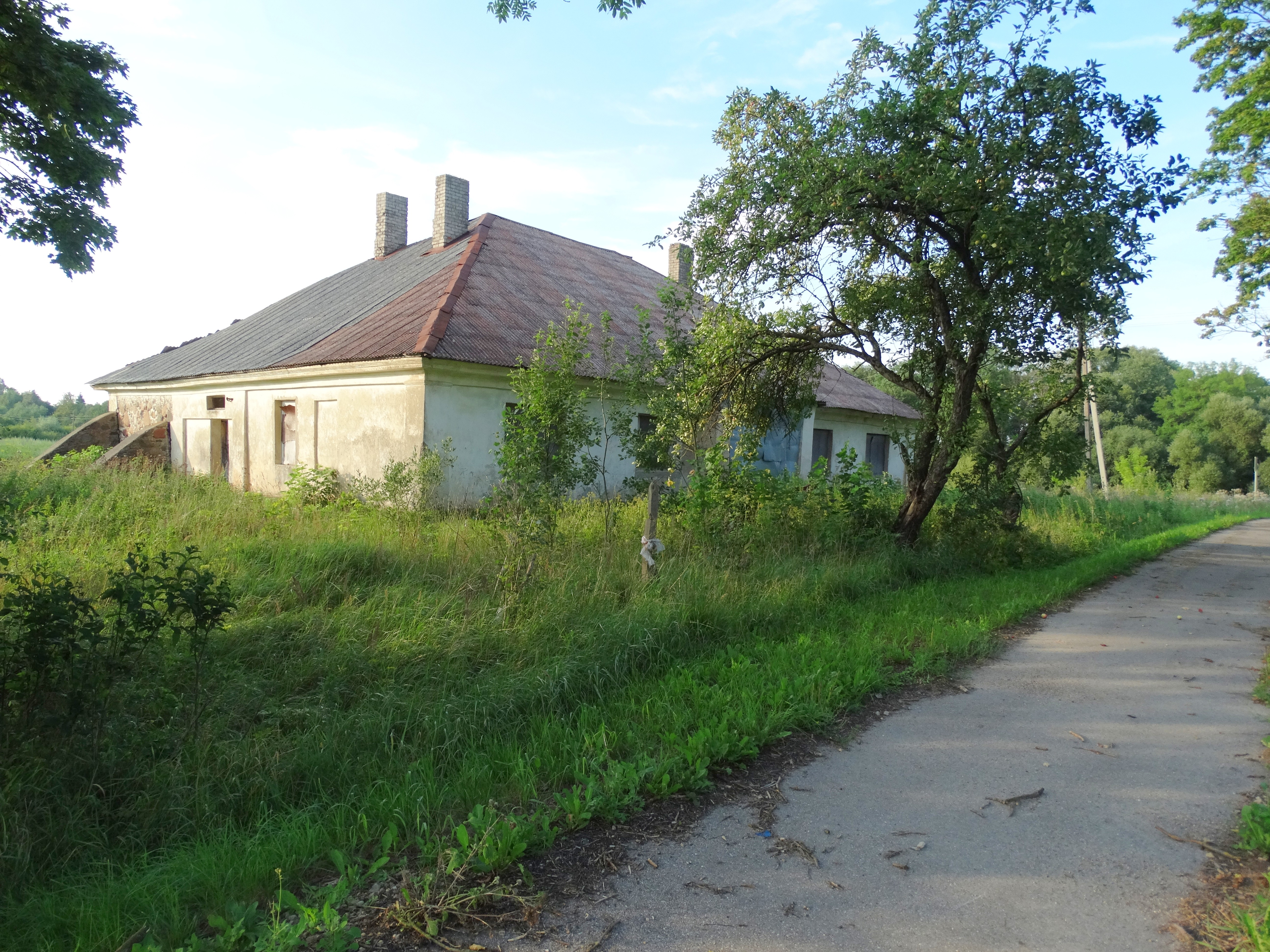 Former pub in Laibiškiai, Ukmergė district, Lithuania